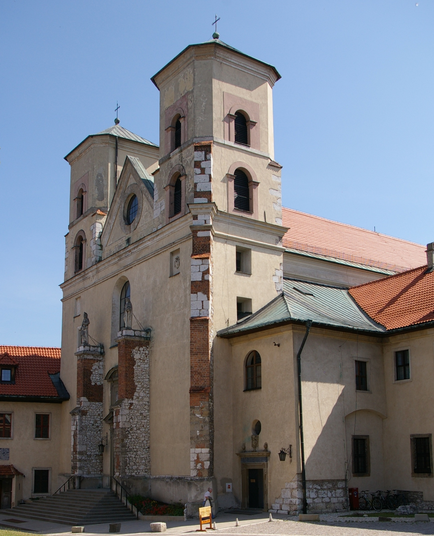 Church of the abbey in Tyniec (Kraków), Poland